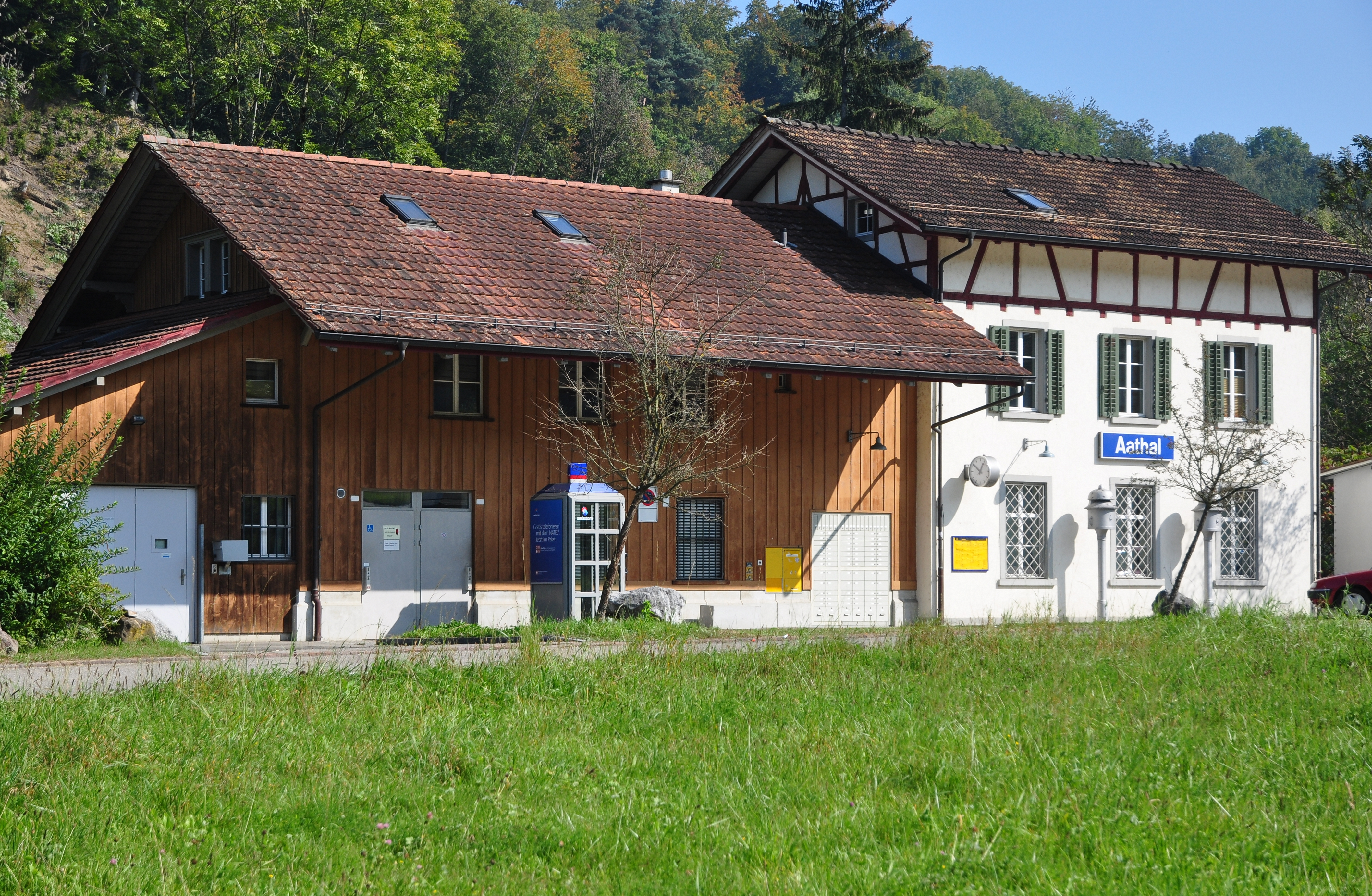 Former building of the train station Aathal in Seegräben (Switzerland)